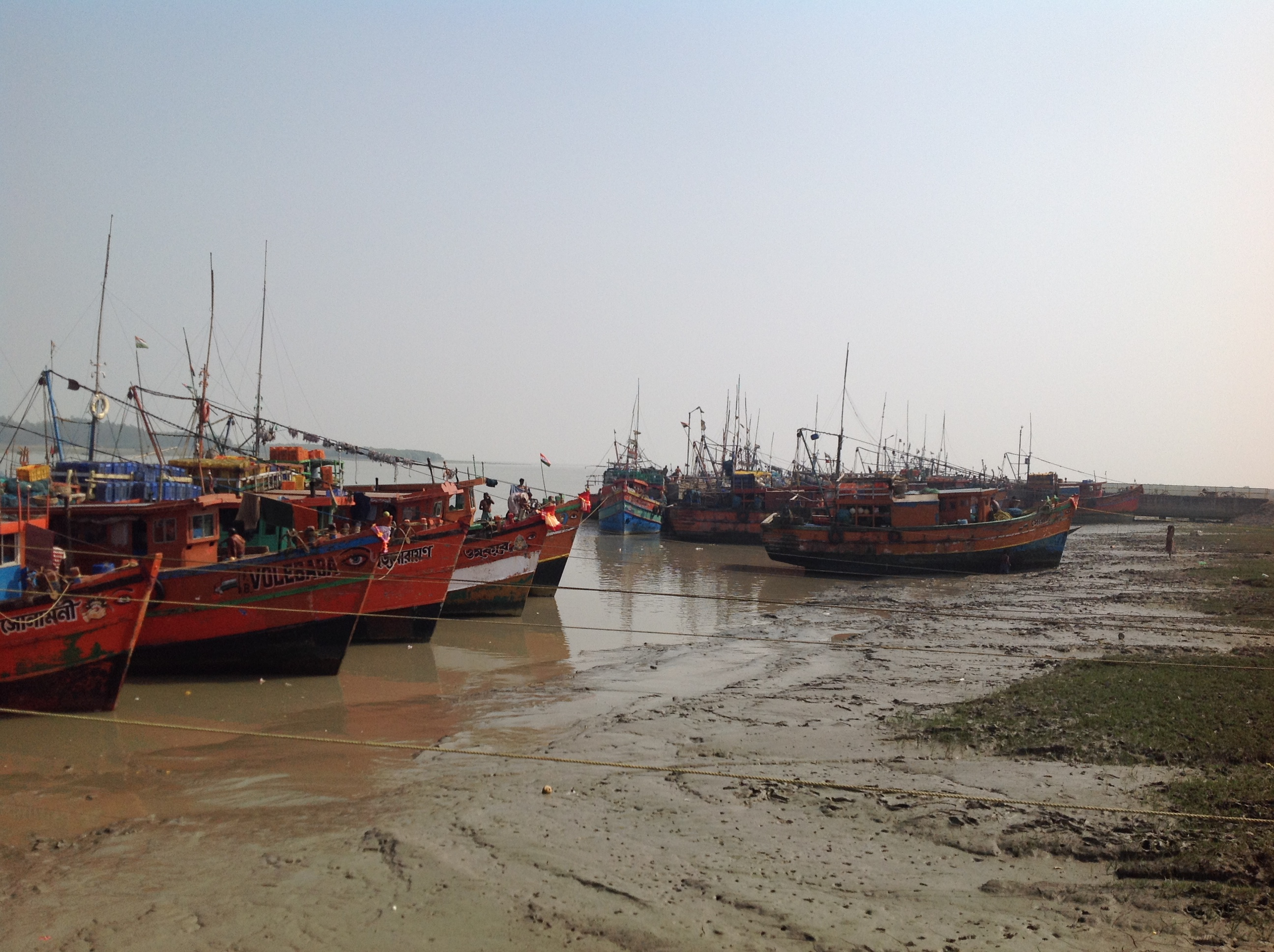 Fishing Boats are harbored at Rasalpur Harbor, East Medinipur